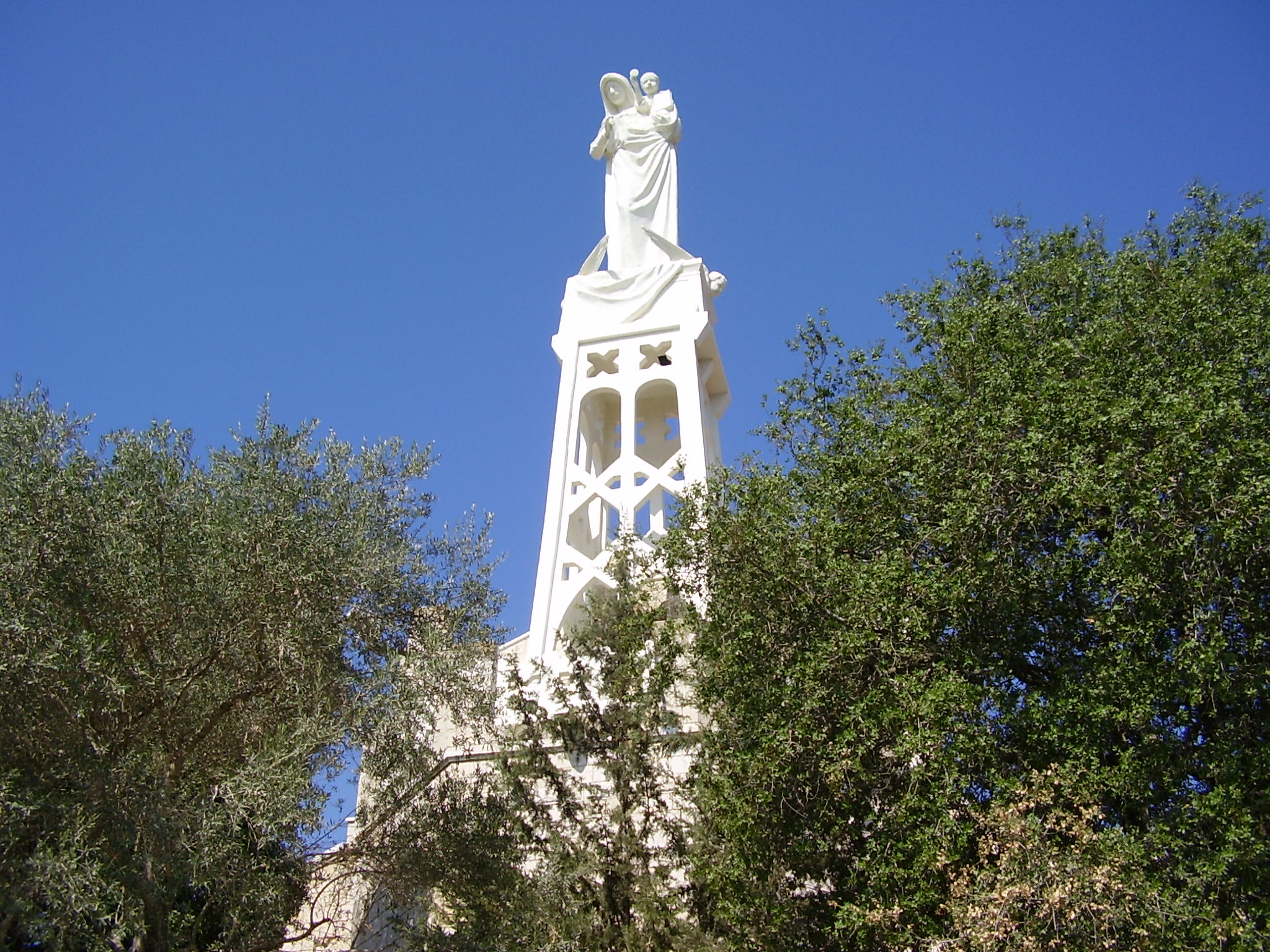 statue of mary and the child, on the church of notre dame de l'arch de l'alliance , in abu ghosh, israel. "פסל מריה ותינוקה על כנסיית "גבירתנו של ארון הברית